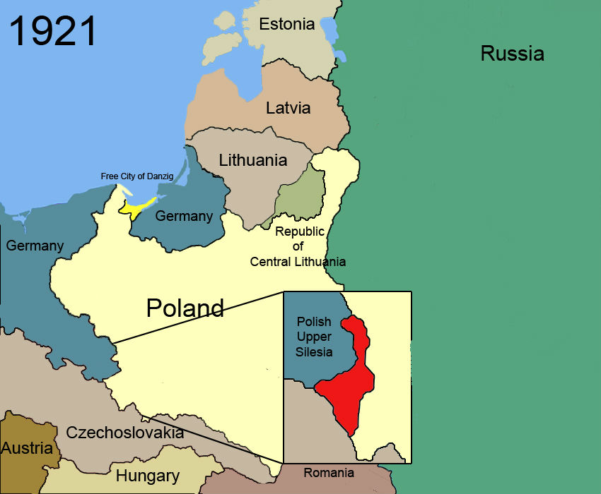 The Silesian Uprisings (Polish: Powstania śląskie) were a series of three armed uprisings (1919–1921) of the Polish people in the Upper Silesia region against Weimar Republic in order to join the region (where in some parts Poles constituted a majority) from Germany and join it with the new Polish state, which had been established following World War I (1914–1918). The Treaty of Versailles had ordered a plebiscite in Upper Silesia to determine whether the territory should be a part of Germany or Poland. The plebiscite took place as arranged on March 20, two days after the signing of the Treaty of Riga, on March 18, 1921, which ended the Polish-Soviet war of 1919–1920. In the plebiscite, around 707,605 votes were cast for Germany, while 479,359 for Poland. The Germans thus had 228,246 votes of majority. The question of the Upper Silesia problem was turned over to the Council of the League of Nations. The commission, consisting of four representatives—one each from Belgium, Brazil, Spain, and China. The commission gathered its own data, interviewed Poles and Germans from the region, and made its decision on the basis of self-determination. On the basis of the reports of this commission and those of its experts, on October 1921 the Council awarded the greater part of the Upper Silesian industrial district to Poland.